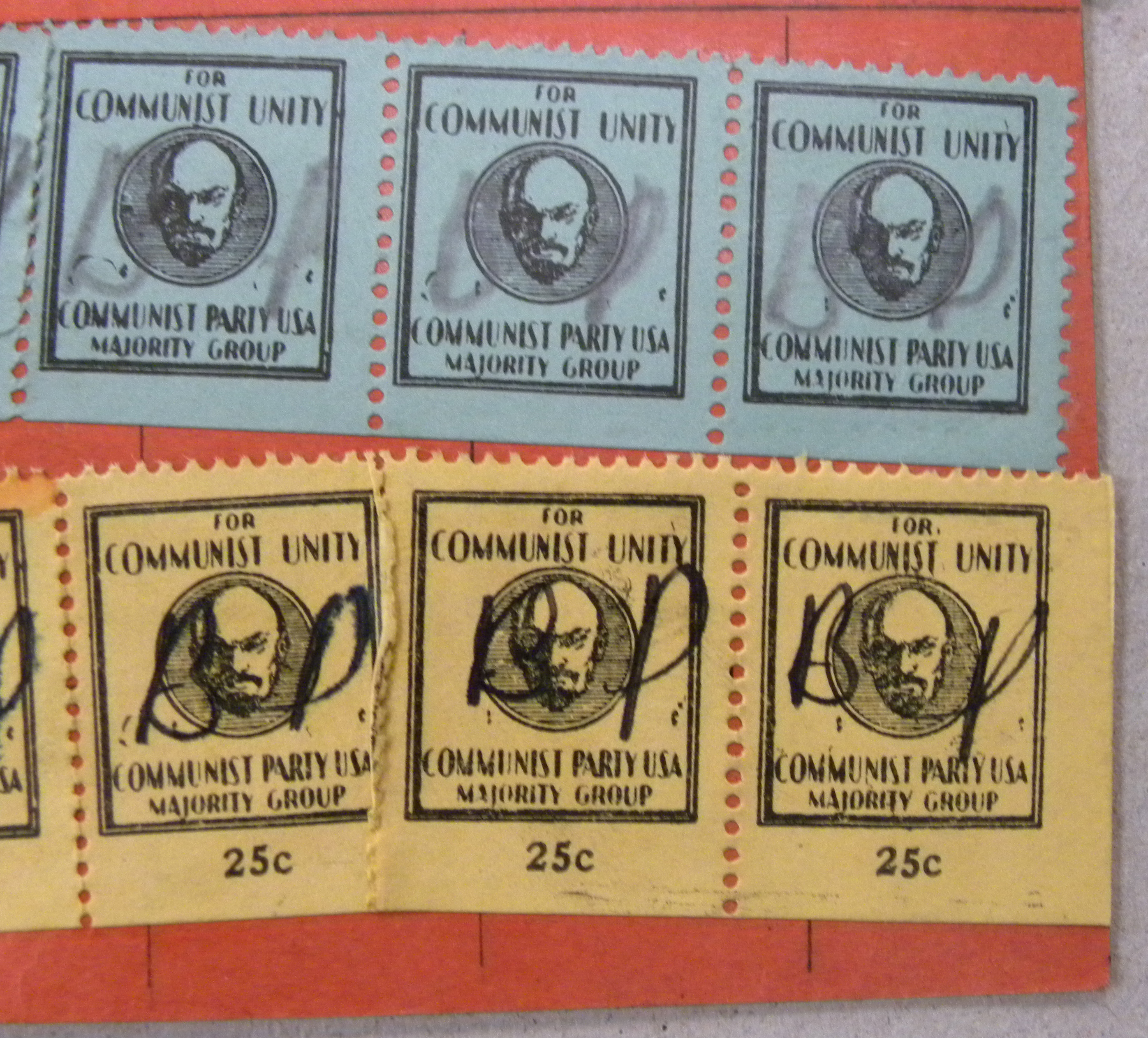 Close up image of weekly dues stamps issued by the Communist Party (Majority Group) in 1931 and 1932.